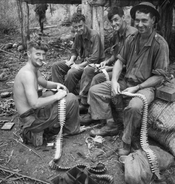 1942-12-16. PAPUA. FALL OF GONA. THESE DIGGERS WERE THE GUN-CREW WHICH KILLED 18 JAPS. AS THE JAPANESE TRIED TO RUSH OUT OF GONA. THEY ARE LOADING UP MACHINE-GUN BELTS IN READINESS FOR THE JAP'S NEXT MOVE. LEFT TO RIGHT - CPL. W.L. SMITH, PTE C.R. MCCONVILLE, PTE. J.R. WINDSOR, PTE. G. SADLIER, ALL OF WESTERN AUSTRALIA. (NEGATIVE BY G. SILK).